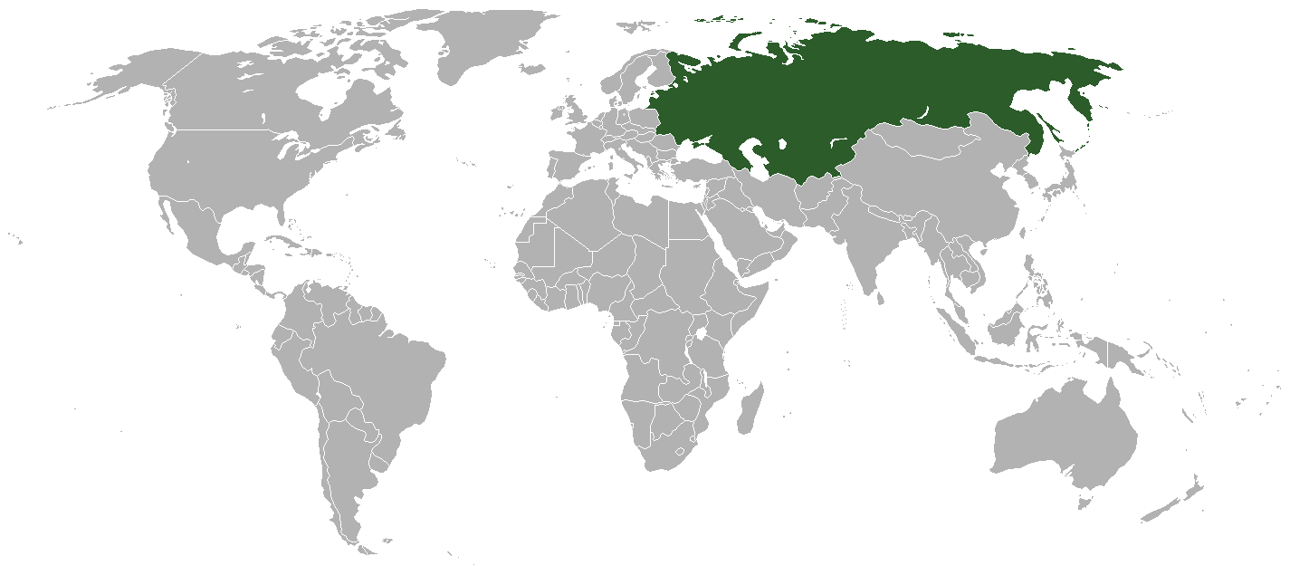 Location of the Soviet Union after the Second World War.